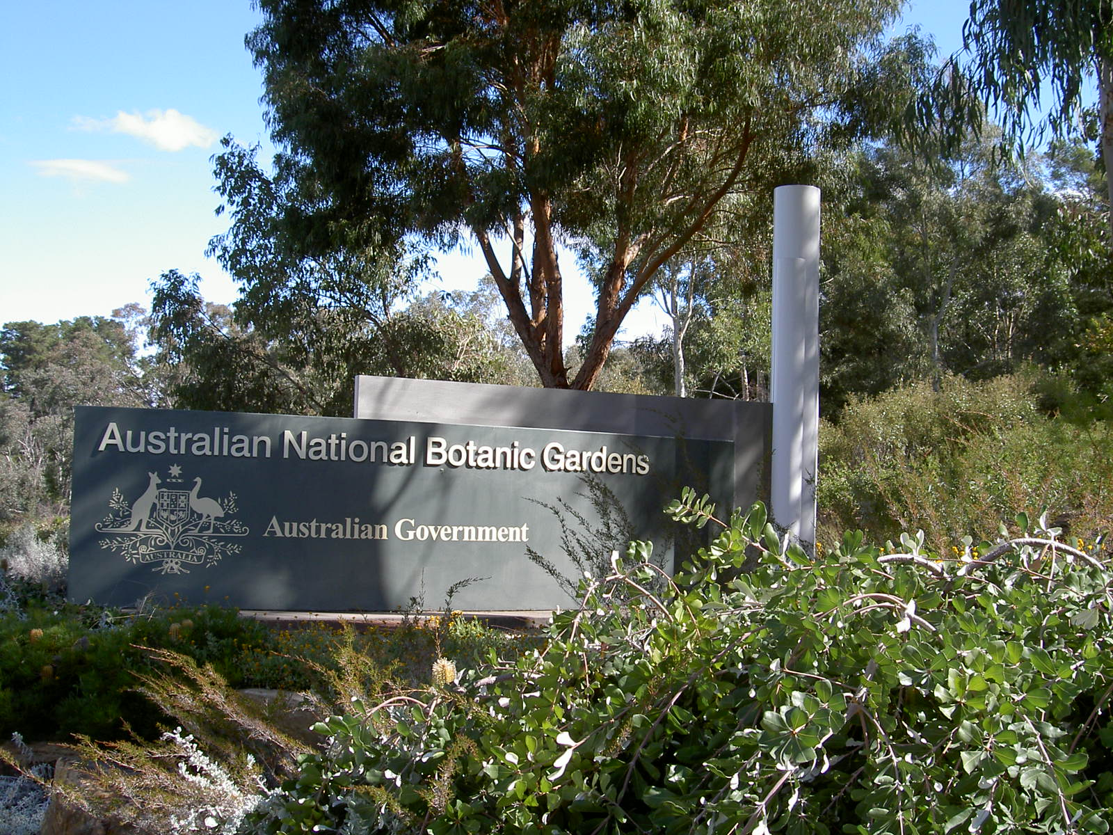 Sign at the Entrance of the Australian National Botanic Gardens in Canberra.